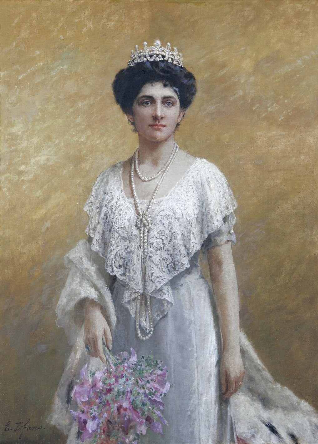 Portrait of the Queen of Italy Elena of Montenegro